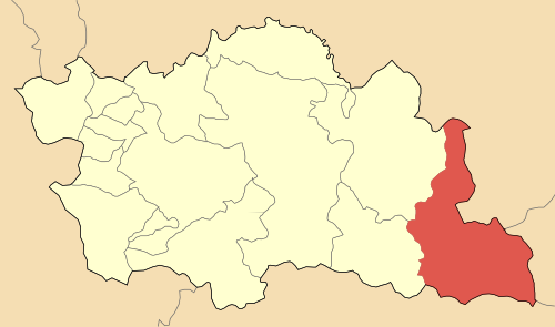 Locator map of Deskatis municipality (Δήμος Δεσκάτης) at Grevena perfecture, Greece.